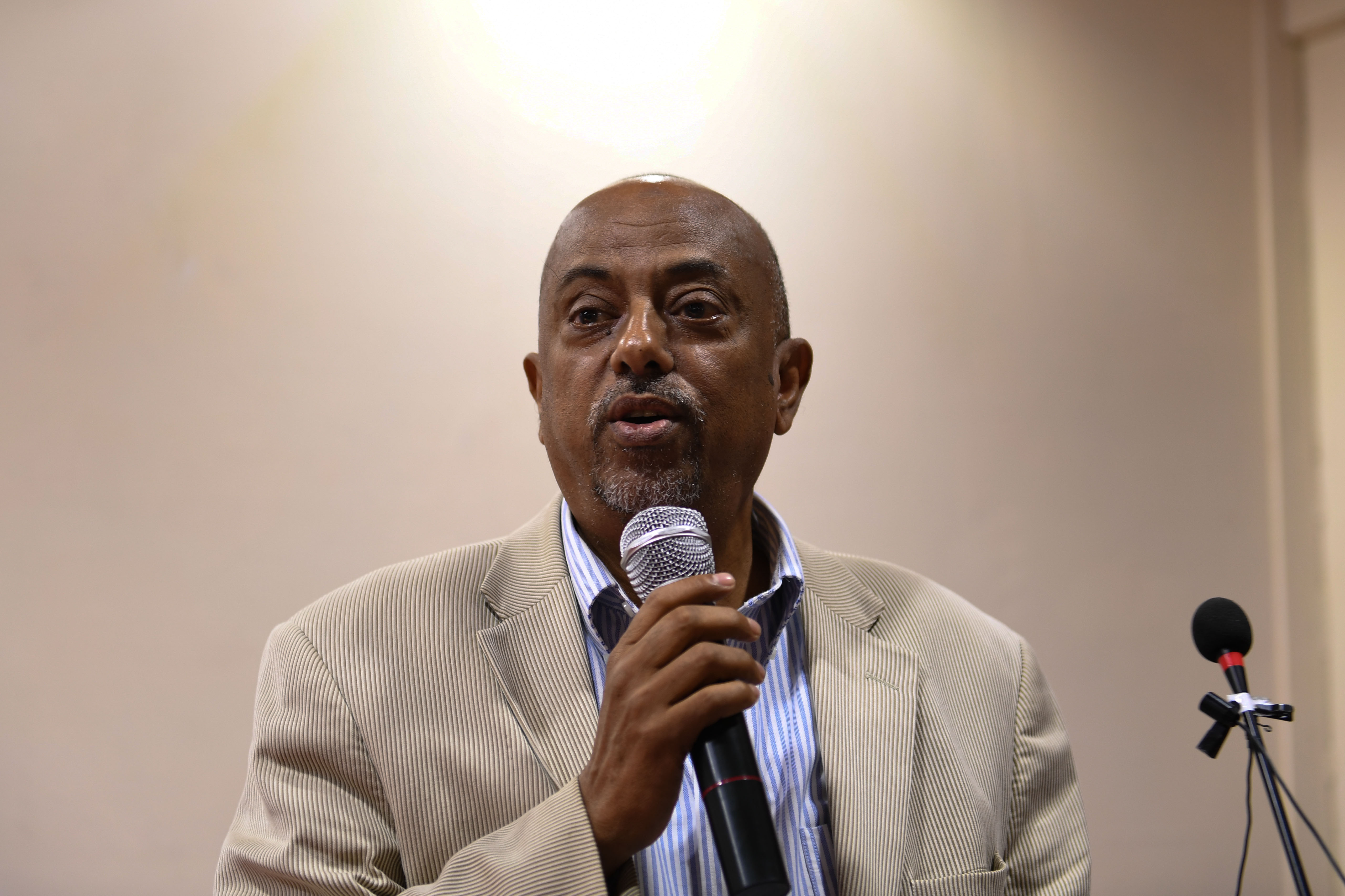 Iman Nur Ikar, the Deputy Mayor of Mogadishu addresses participants during a workshop on 16 days of Activism Against Gender-Based Violence in Mogadishu, Somalia on December 11, 2016. AMISOM Photo / Ilyas Ahmed